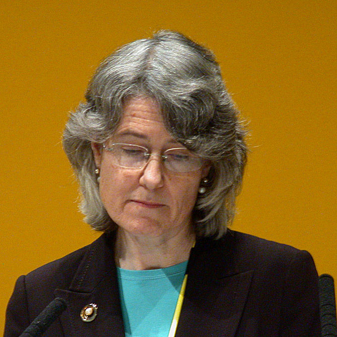 Fiona Hall MEP addressing a Liberal Democrat conference in the ACC, Liverpool